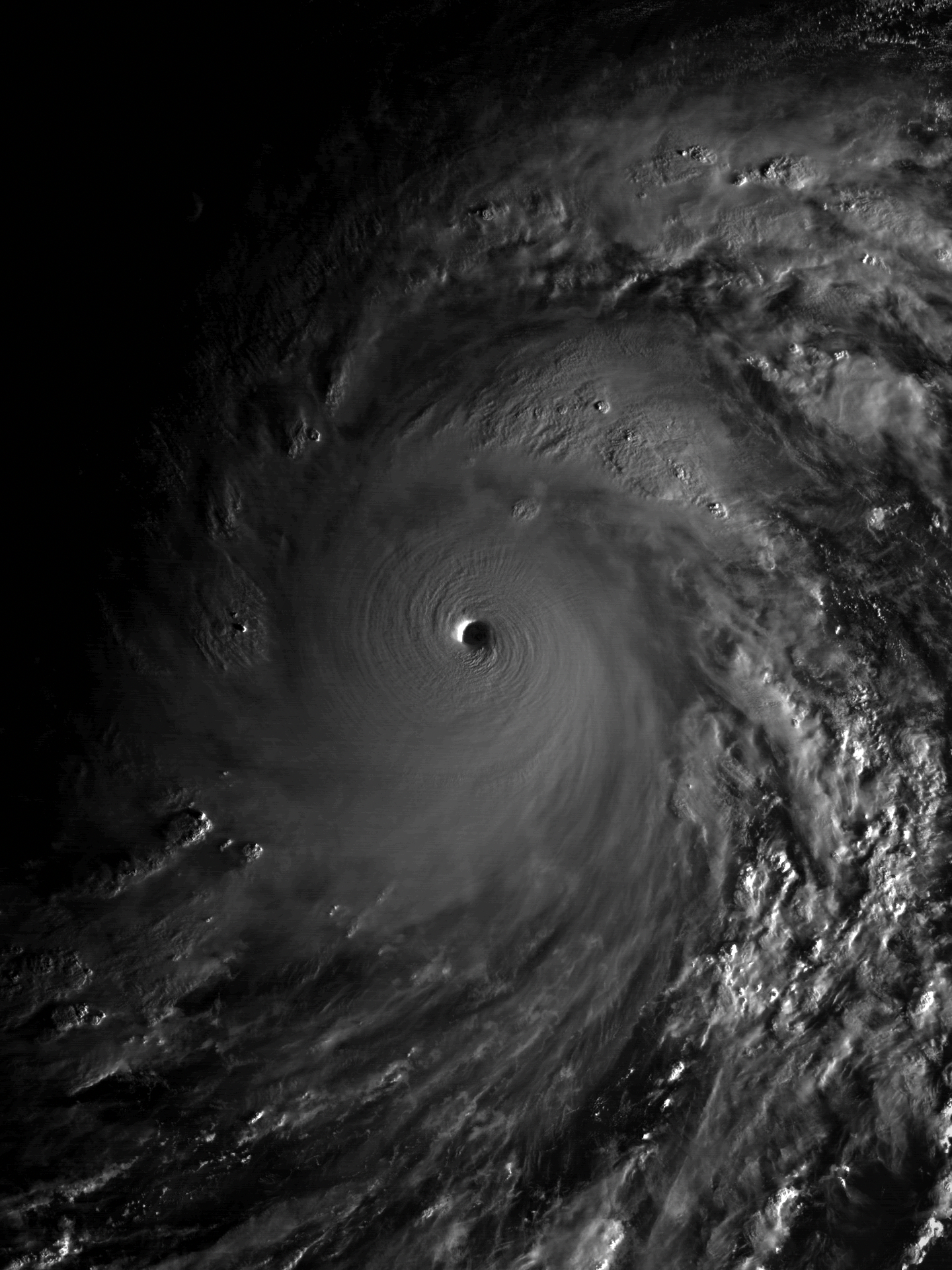 The Japan Meteorological Agency’s MTSAT-1R satellite captured this visible imagery at 21:57 Coordinated Universal Time on November 7, 2013 (05:57 Philippine Standard Time on November 8), featuring Typhoon Haiyan (Yolanda) at sunrise and ready to make landfall over the island of Leyte.